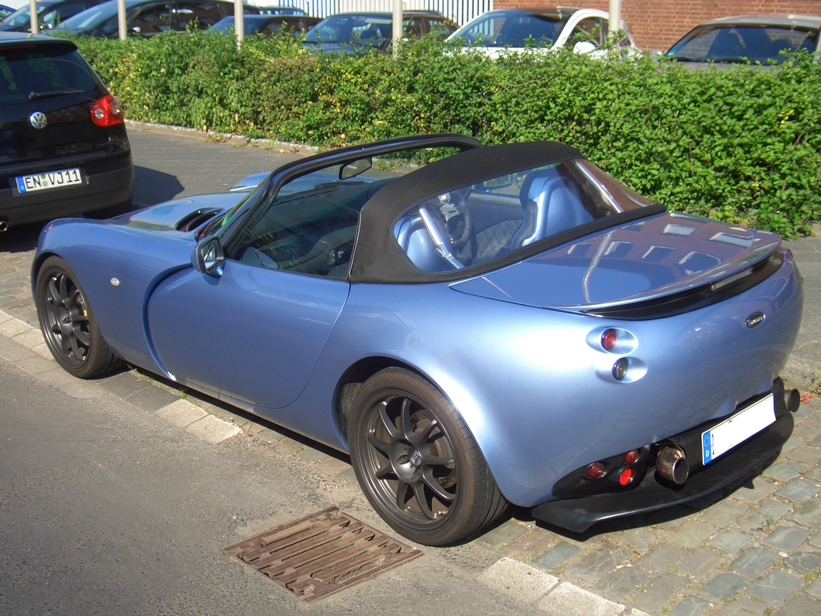 TVR Tamora, seen in Duesseldorf, Germany